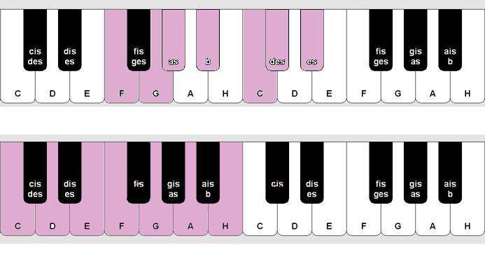 shows scale c major